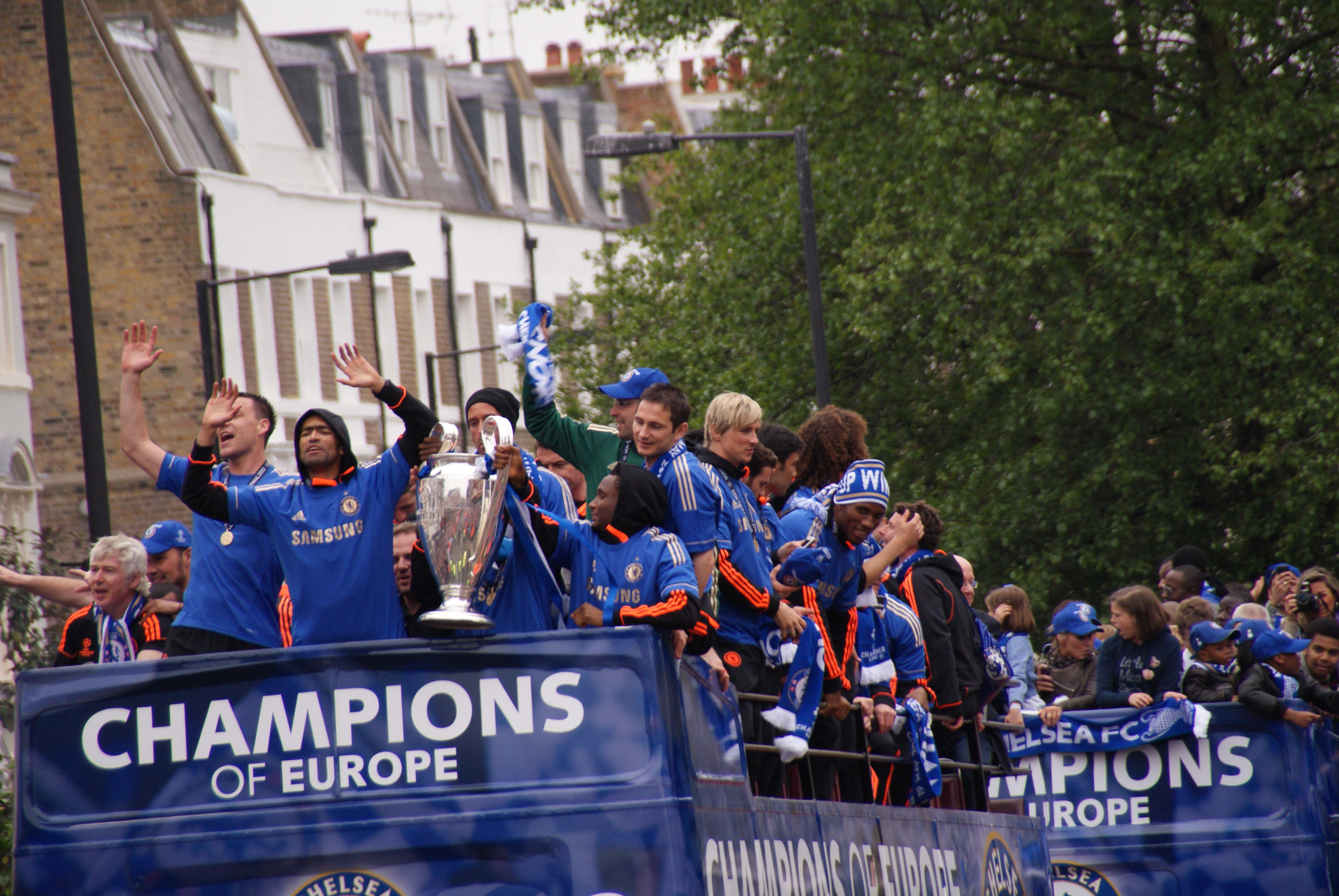 This photo was taken on Sunday 20th May 2012 during the Chelsea Football Club Parade following Chelsea's victory in the European Champions League Final.